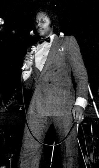 American singer Cavin Yarbrough from the R&B/soul music duo Yarbrough and Peoples in Paris, France